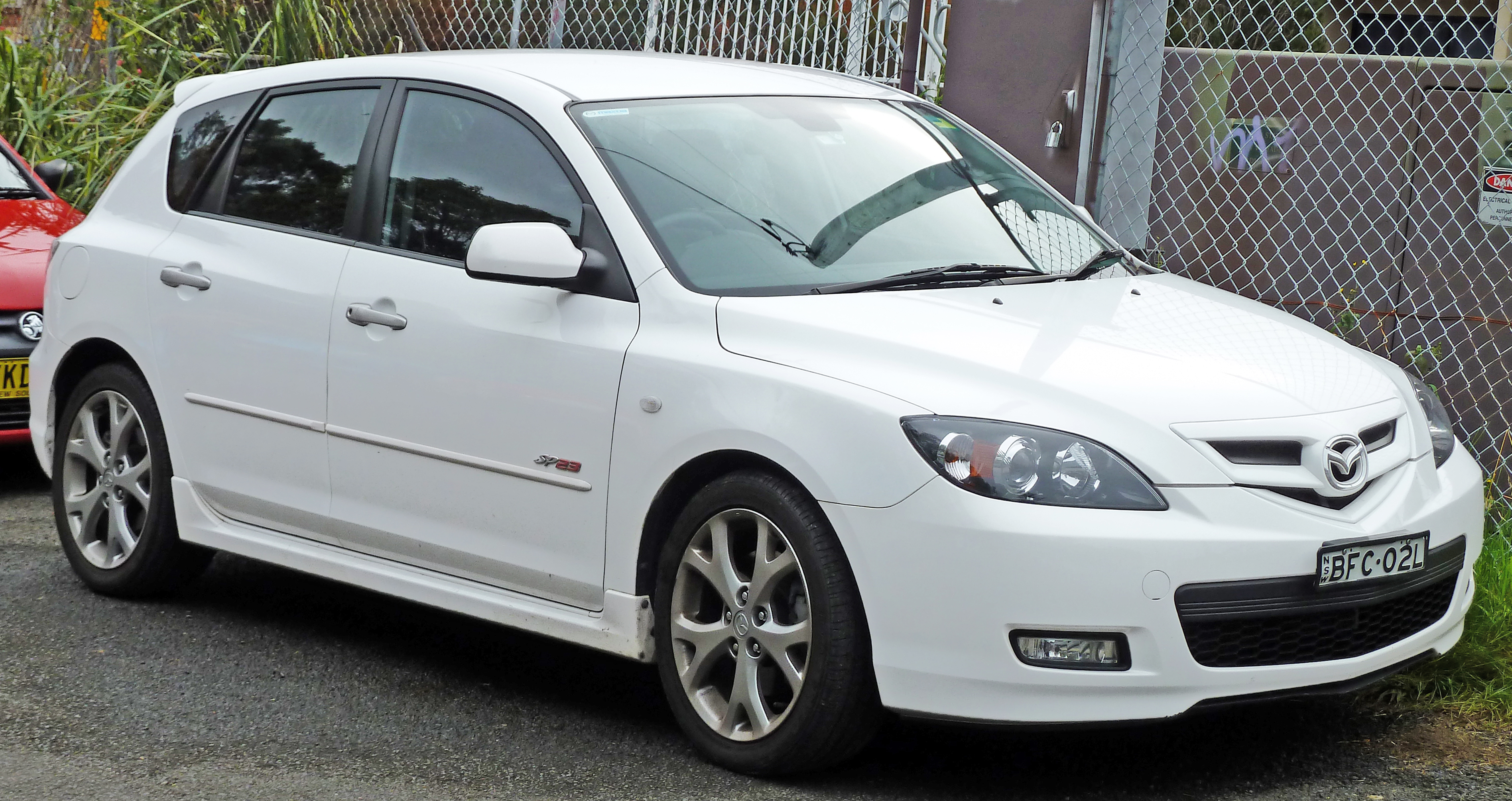 2008 Mazda3 (BK Series 2) SP23 hatchback. Photographed in Miranda, New South Wales, Australia.